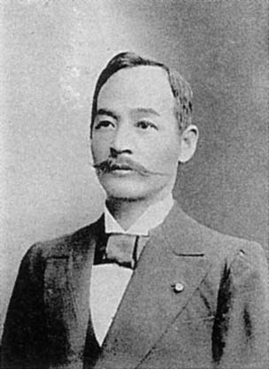 T. Terao, Professor of International Law.